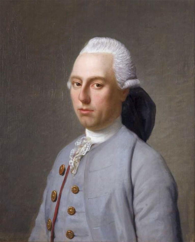 Willem van Hogendorp (1735-1784) oil on canvas 60.5 x 50.5 cm 1763-1773